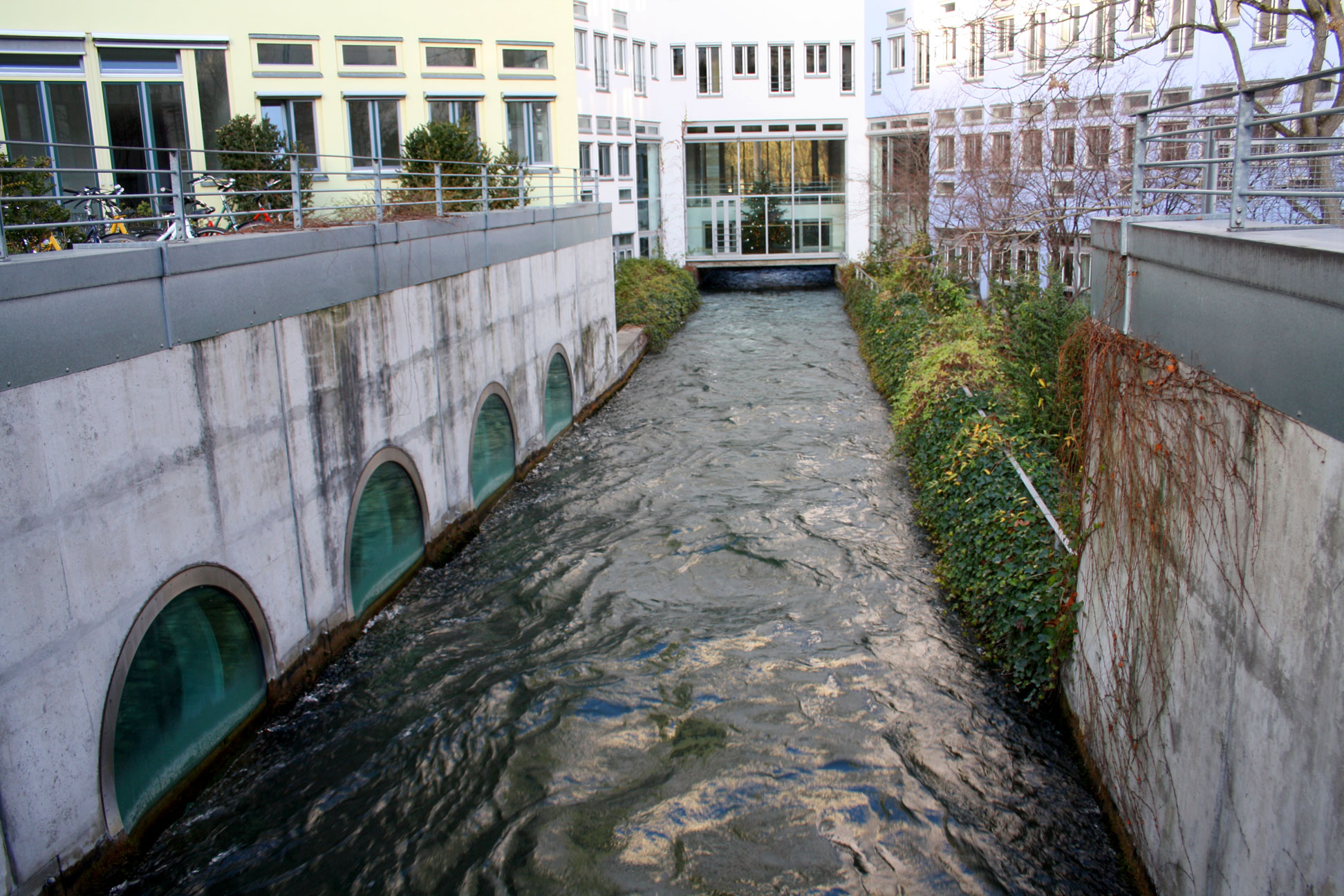 Stadtmühlbach, exposed part in Lehel, Munich